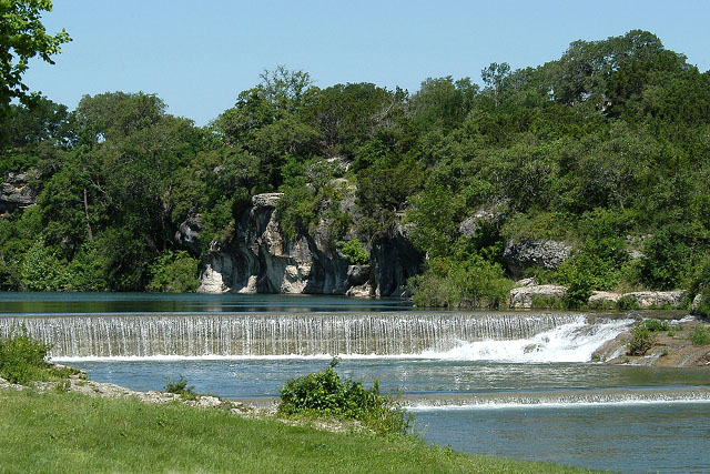 Blue Hole park in Georgetown TX (Aug 29, 2010)